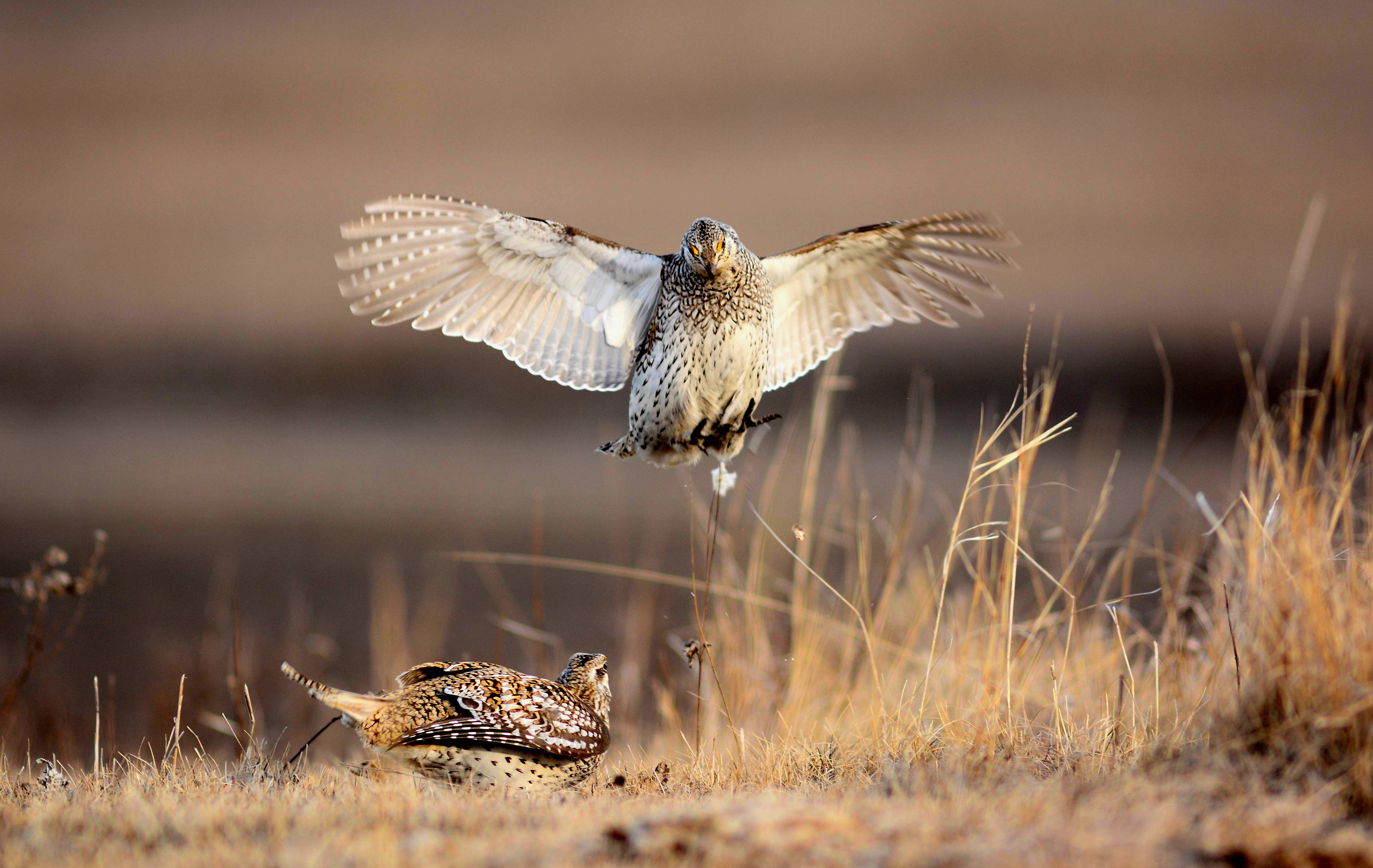 In the spring, sharp-tailed grouse form mating grounds, or leks, where they congregate to compete for territories and perform mating displays for visiting females. This crowded scene leads to fighting among the males as they attempt to outcompete one another and win the affections of the onlooking females. Photo Credit: Rick Bohn